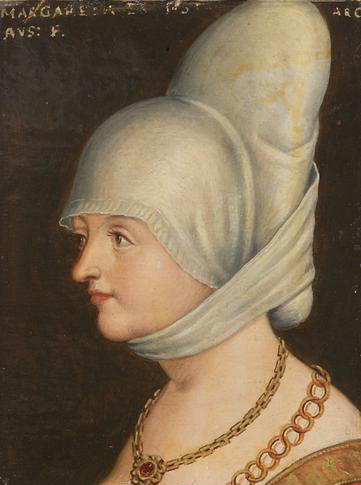 Margaretha von Habsburg, duchess of Saxony